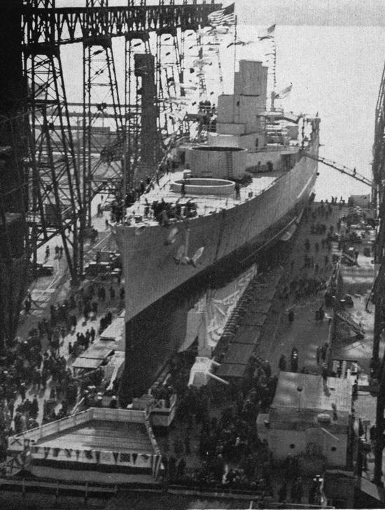 The U.S. Navy heavy cruiser USS Wichita (CA-45) before its launch at the Philadelphia Naval Shipyard, Pennsylvania (USA), on 16 November 1937.